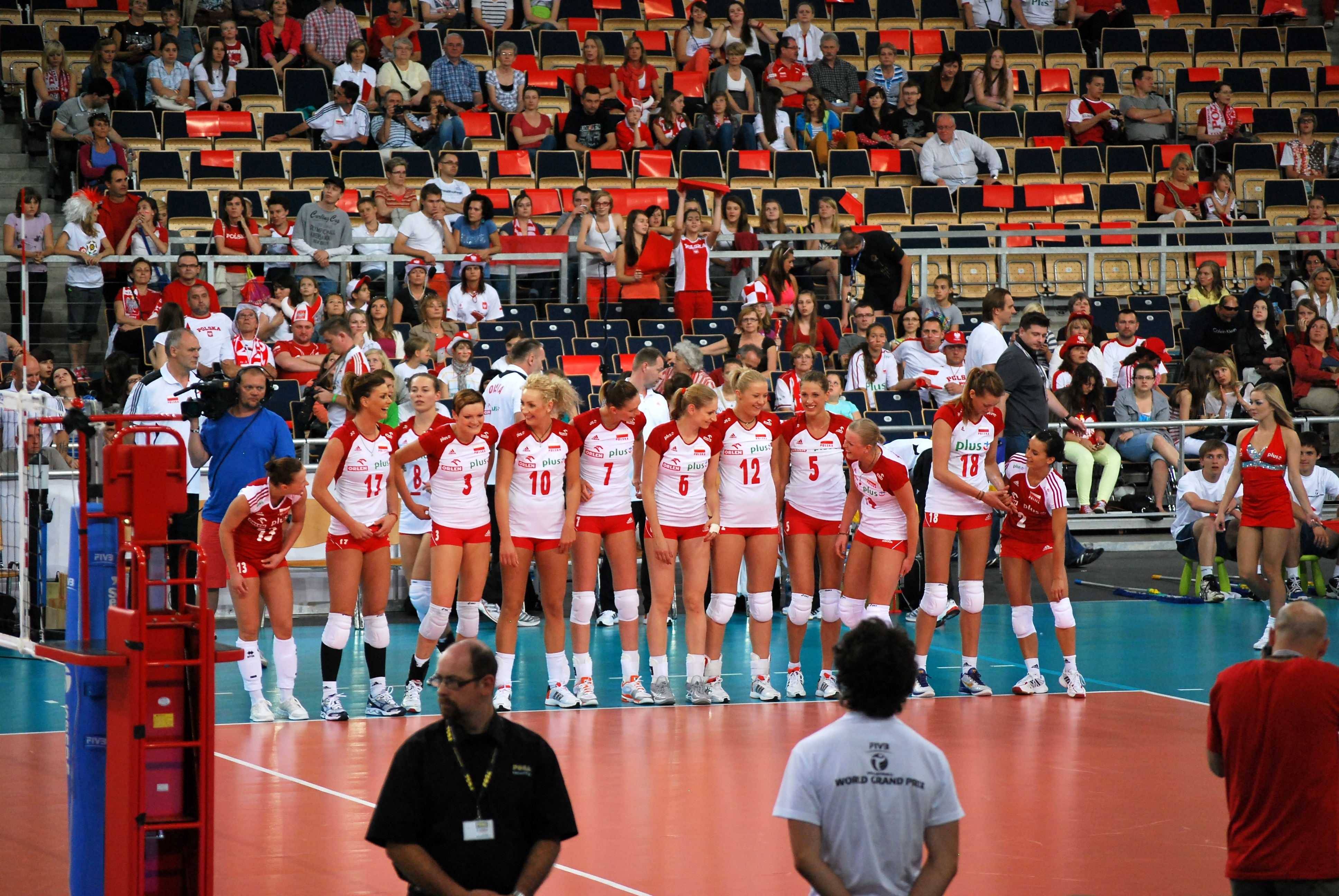 Polish Team, Grand Prix Łódź, Poland